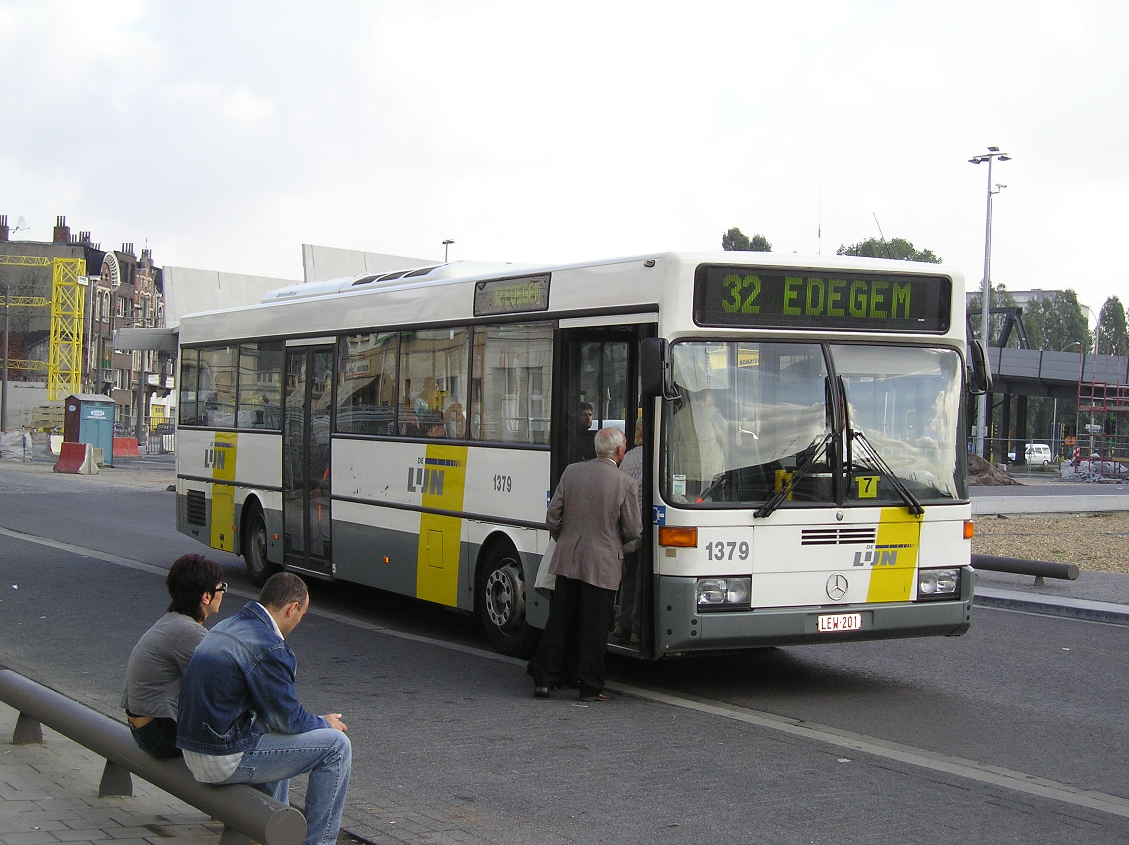 Mercedes-Benz bus of the Flemish public transport authority De Lijn in Antwerp, near Antwerpen-Berchem train station